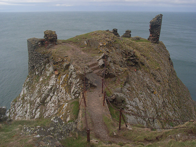 Fast Castle Formerly entry to the castle was via a drawbridge over a chasm, now there's some concrete.